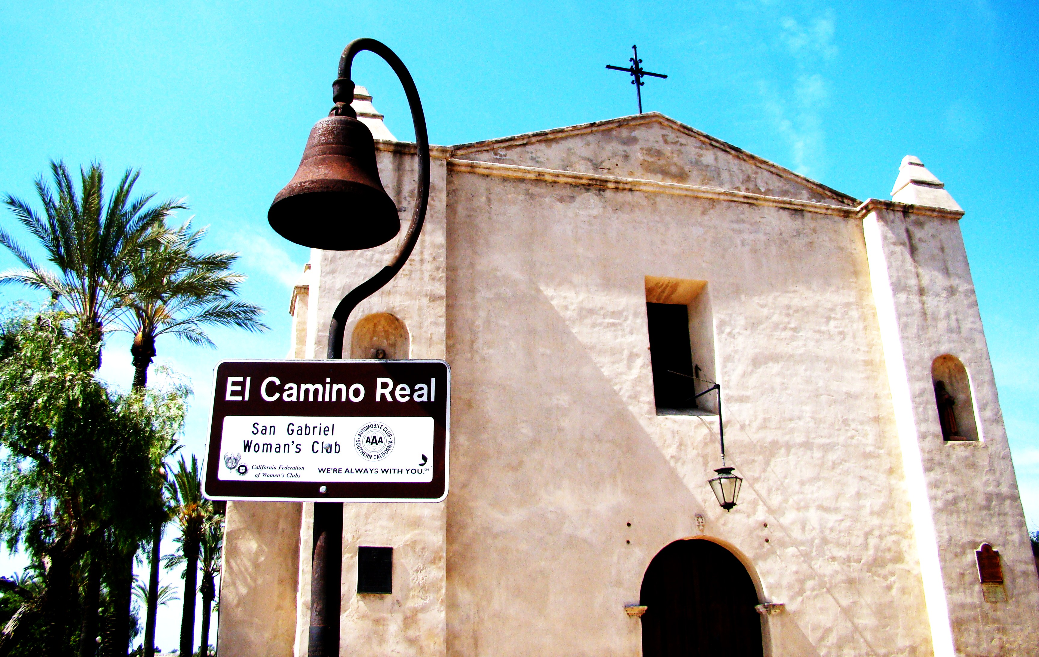 The fourth in the chain of missions in California founded by the Spanish friar Junipero Serra, about 10 miles east of downtown Los Angeles. The California wine industry started here. The City of Los Angeles was founded as an offshoot of this mission. This is actually the second site for this mission; the original (in the city of Montebello near the Whittier Narrows dam) was abandoned when its fields in the Whittier Narrows were flooded by the San Gabriel River. All that remains of the original mission is a similar El Camino Real bell.